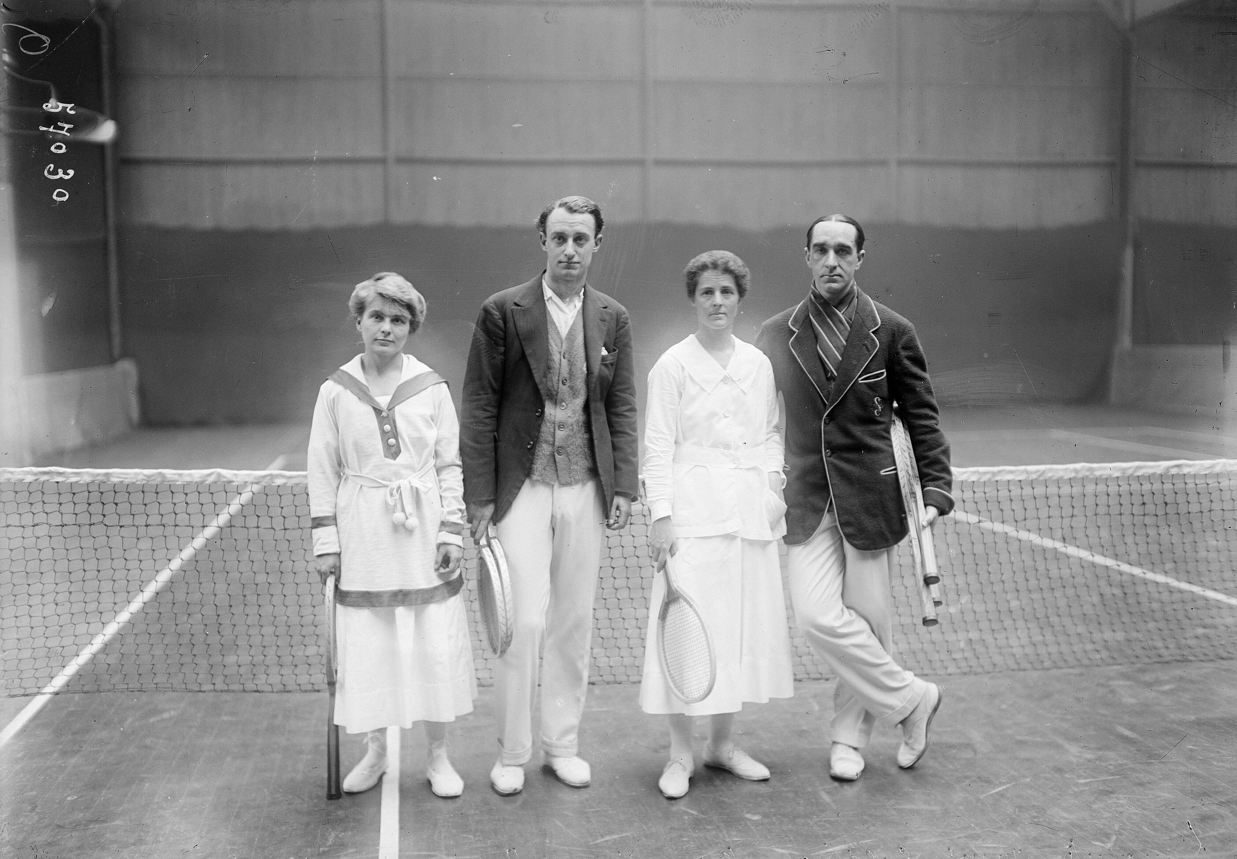 Group of tennis players, from left: Germaine Golding William Laurentz Winifred Beamish (née Ramsey) Max Décugis